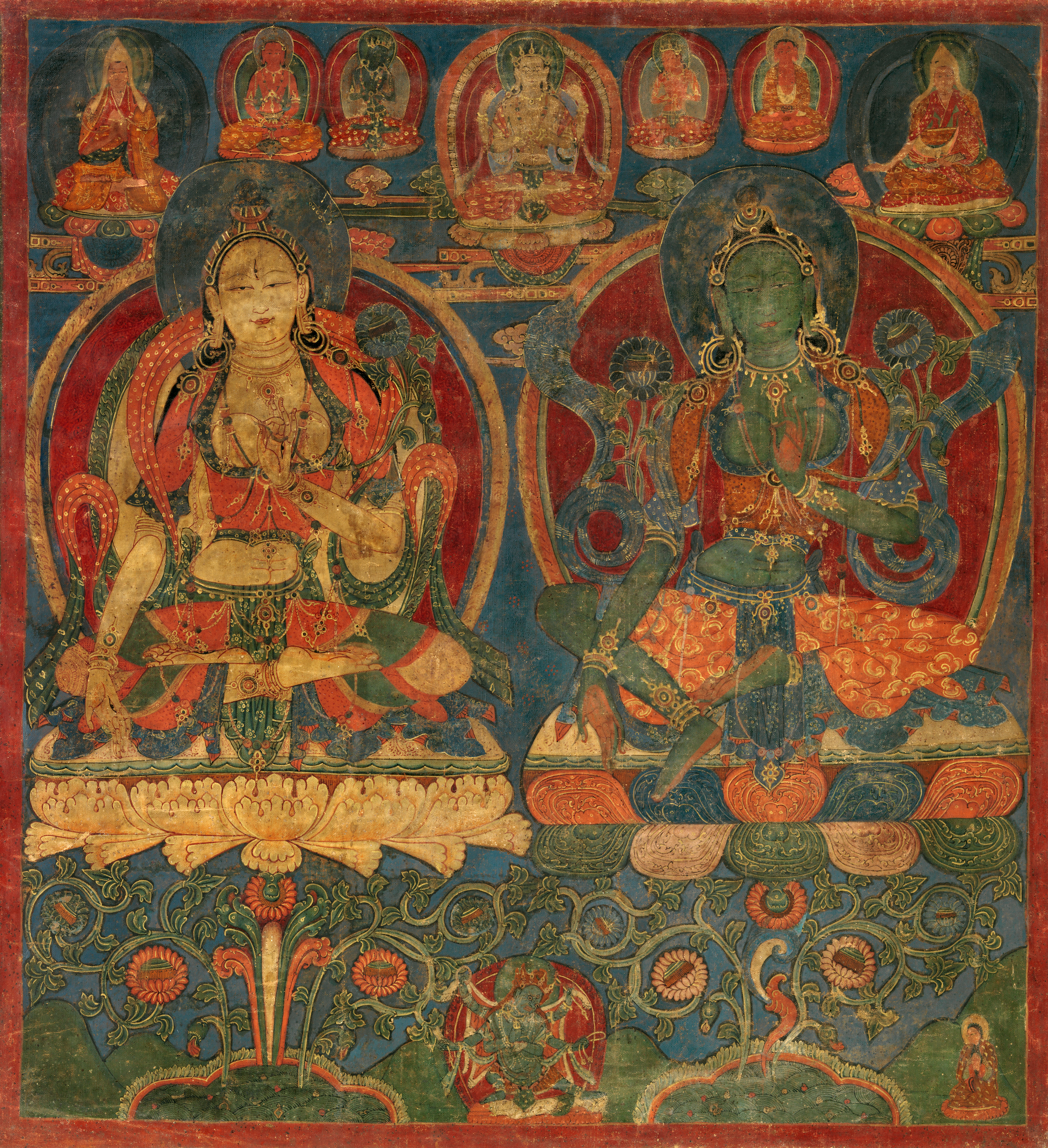 White Tara and Green Tara. Western Tibet (Guge). Distemper on cloth, 20 1/4 x 20 in. (51.4 x 50.8 cm). In this unique arrangement of an extremely rare subject, two taras are seated on lotus thrones rising from pools set in a mountainous backdrop. The White Tara, represented with the multiple eyes of omniscience, sits in meditation posture, while the Green Tara hangs one leg pendant. Both lower one hand in the boon-giving varada mudra.